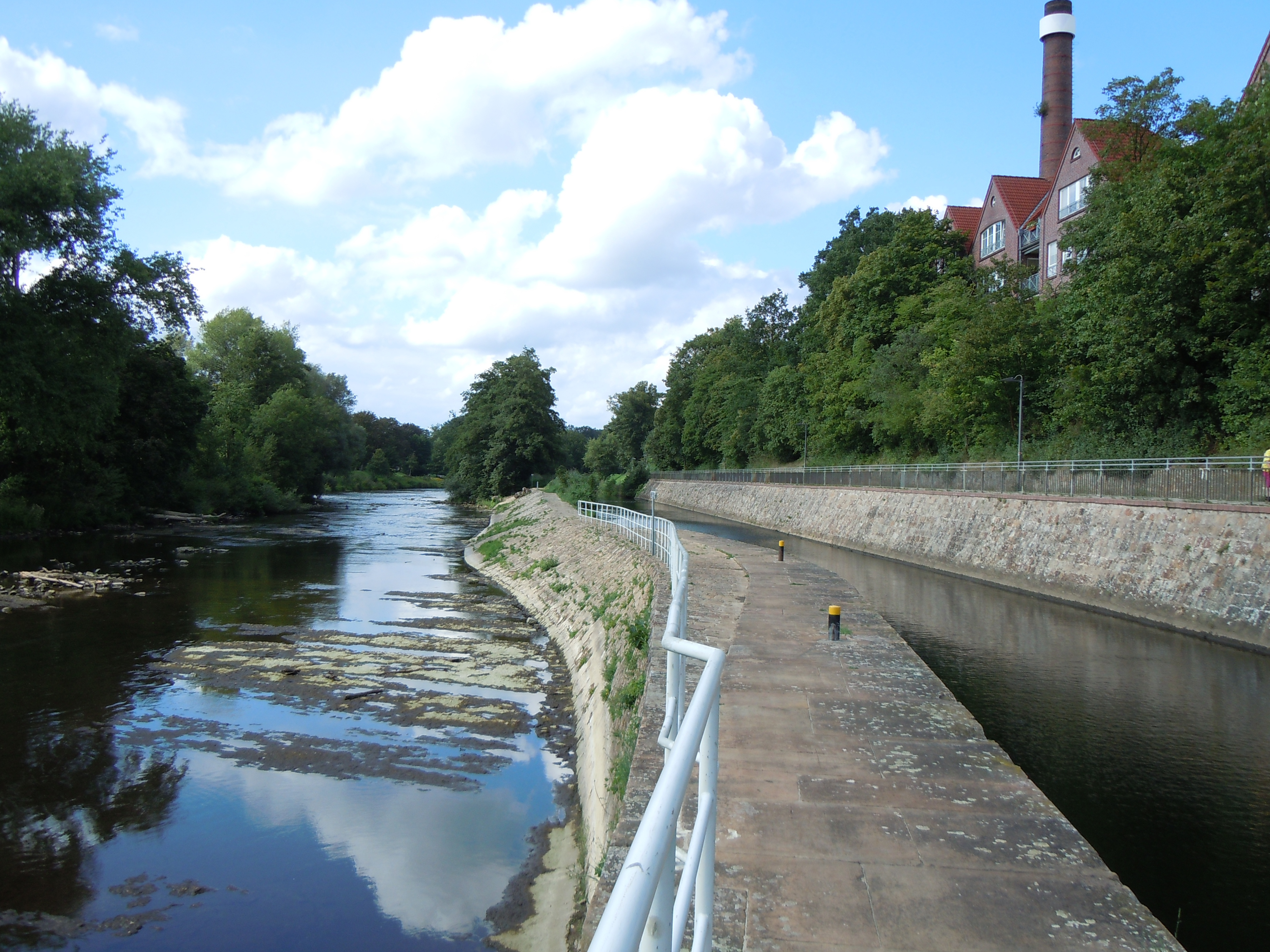 Ems in Rheine (Germany)